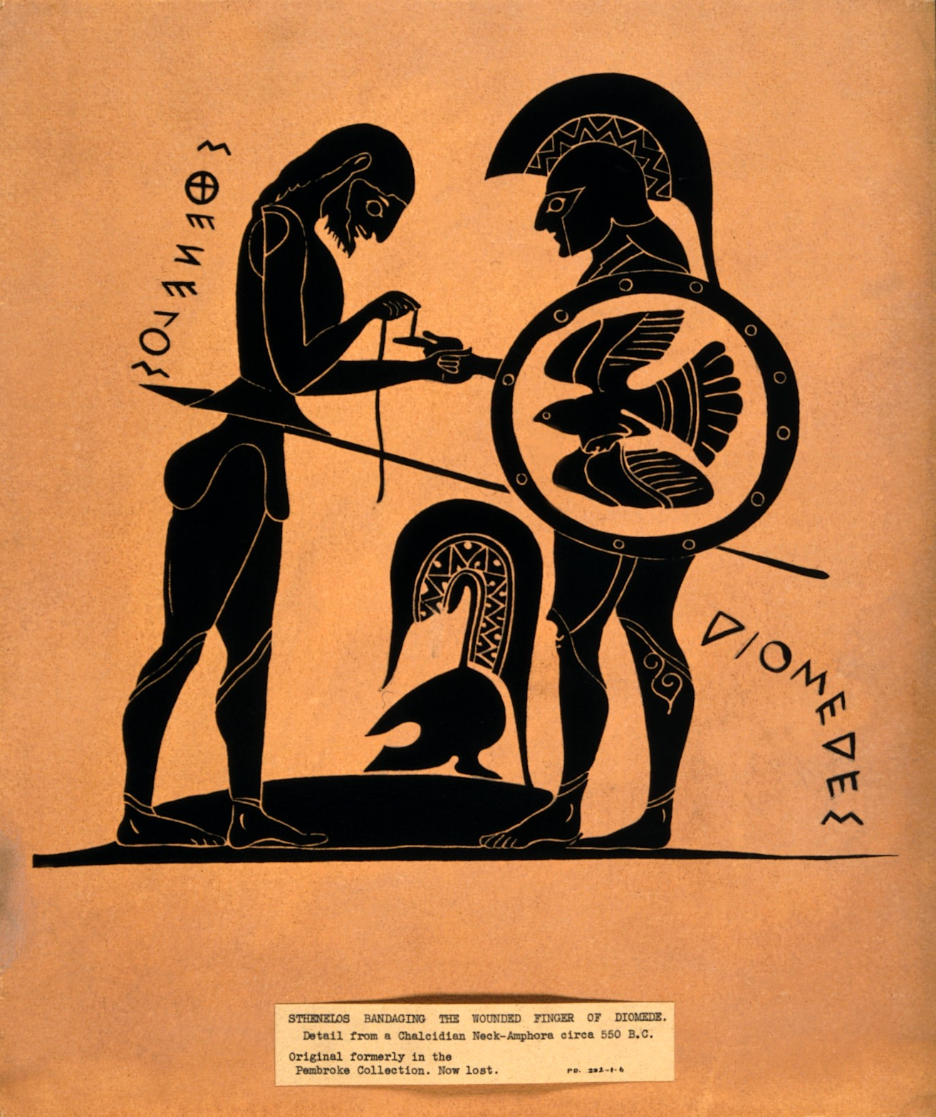 Sthenelos bandaging the wounded finger of Diomedes. Ink drawing after a Chalcidian neck-amphora c. 550 B.C. Iconographic Collections Keywords: Diomedes; Sthenelos